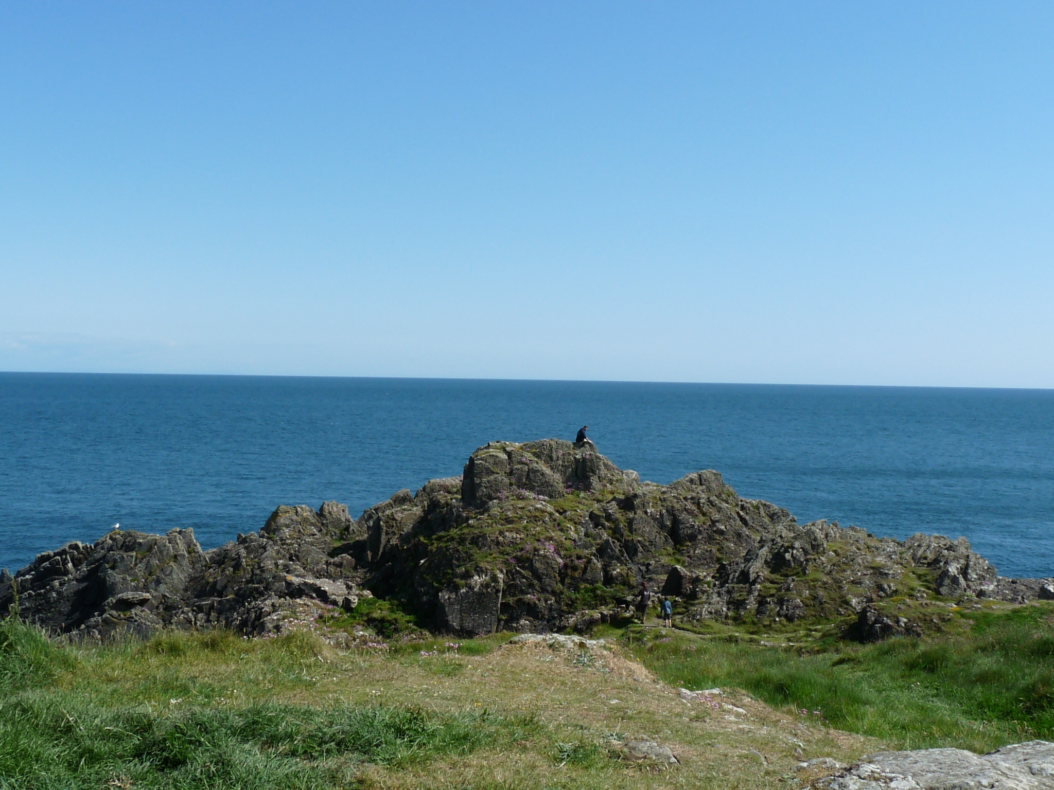 Isle Head, Isle of Whithorn, from near the signalling tower